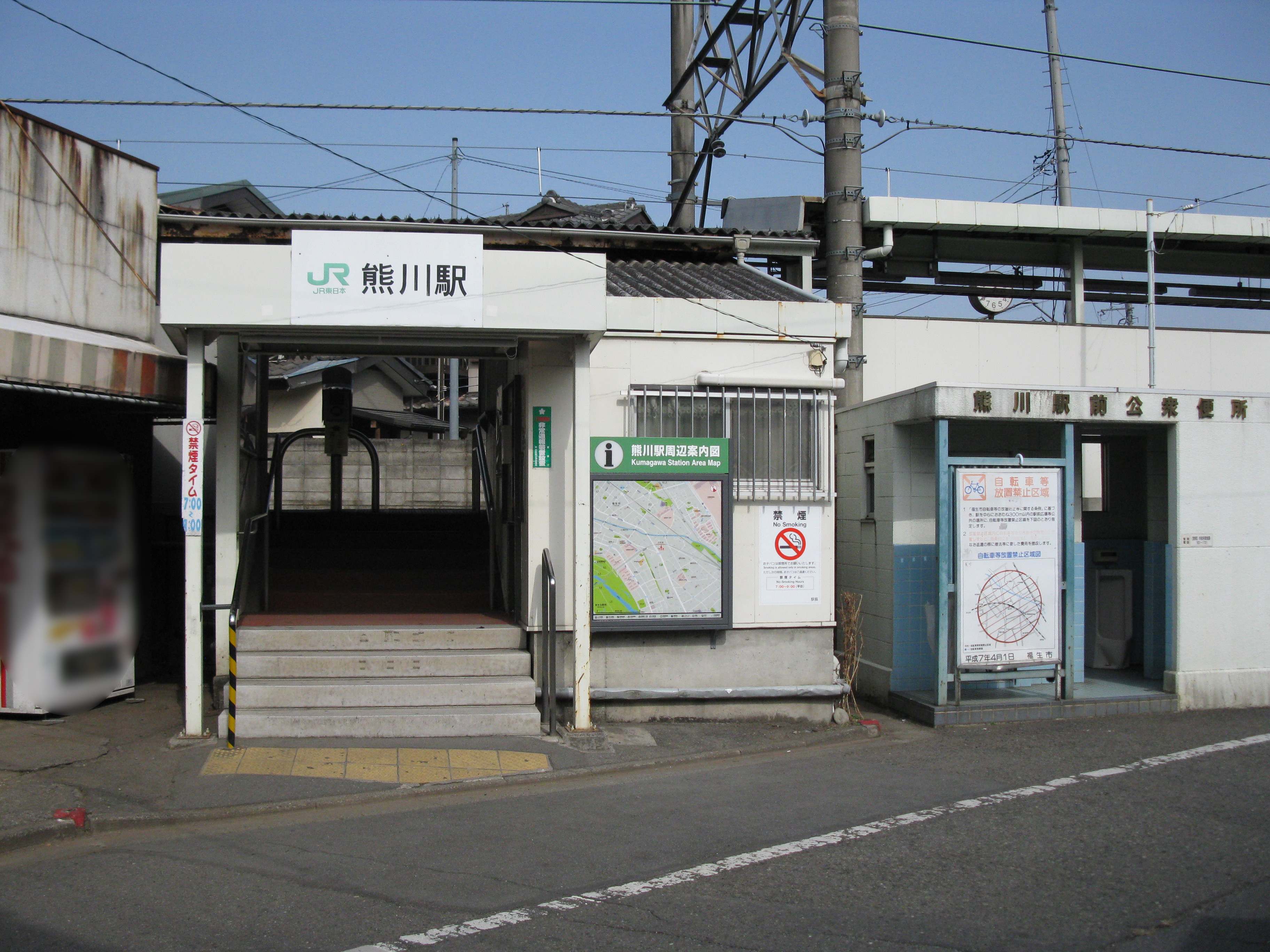 Kumagawa Station entrance (East Japan Railway Itsukaichi Line)